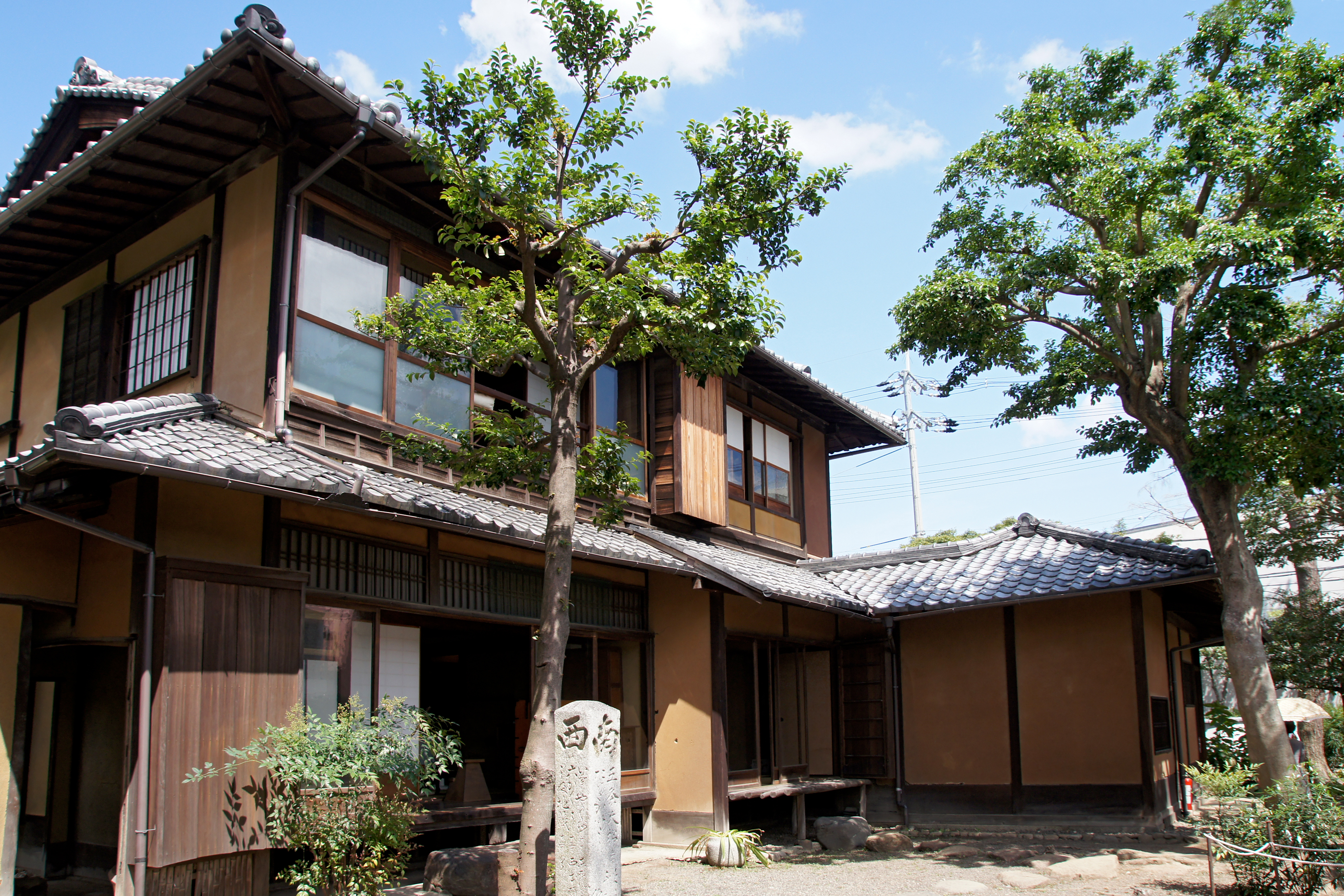 Oukoku Bunko in Kyoto, Kyoto prefecture, Japan.